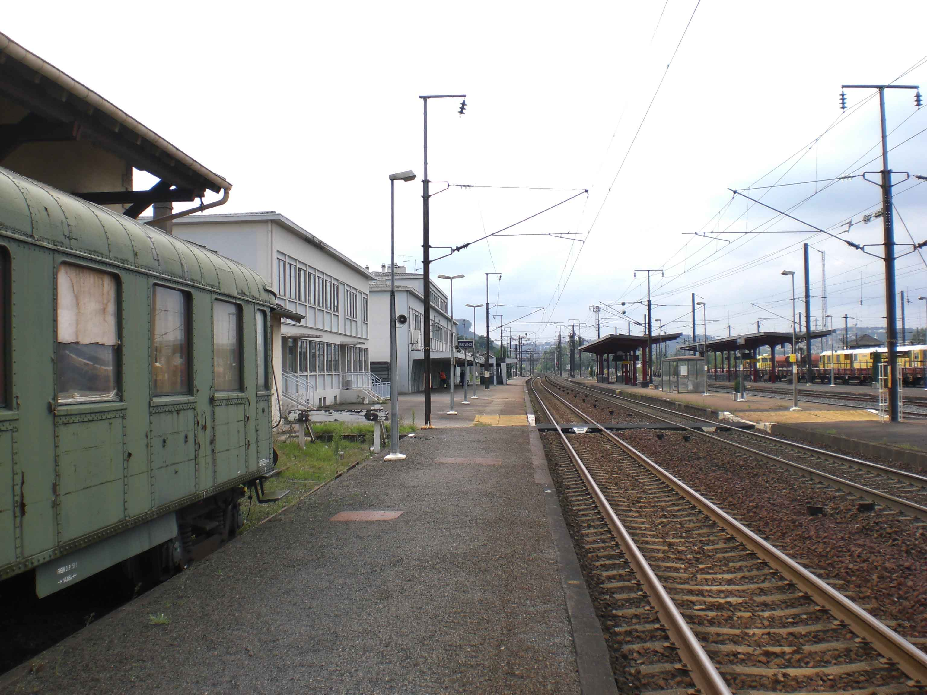 Railway station at Béning, Lorraine